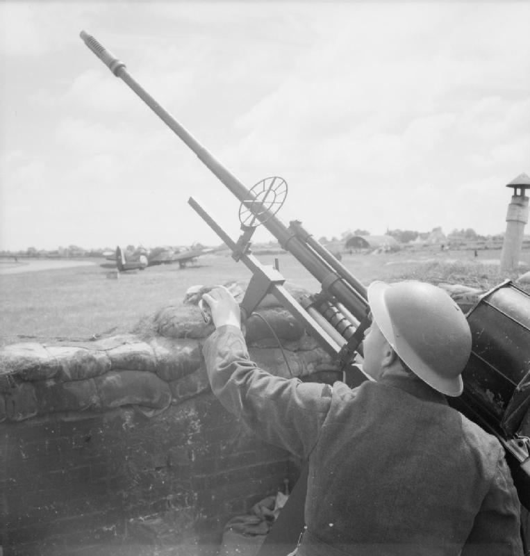 Royal Air Force 1939-1945- Fighter Command An RAF 'ground gunner' mans a 20mm Hispano cannon in a revetment at Tangmere, 8 June 1941.